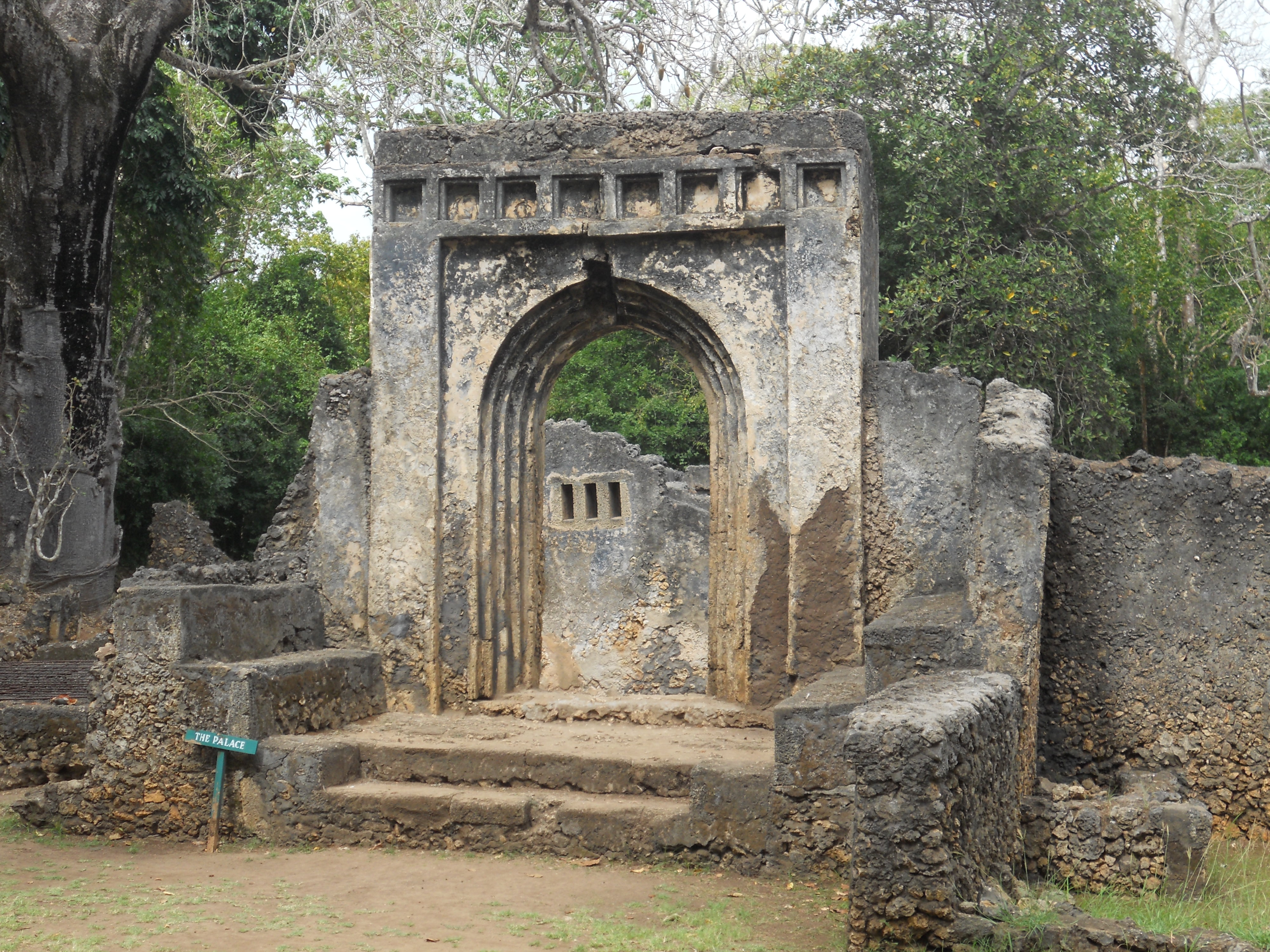 Ruins of a mosque in Gede, Kenya